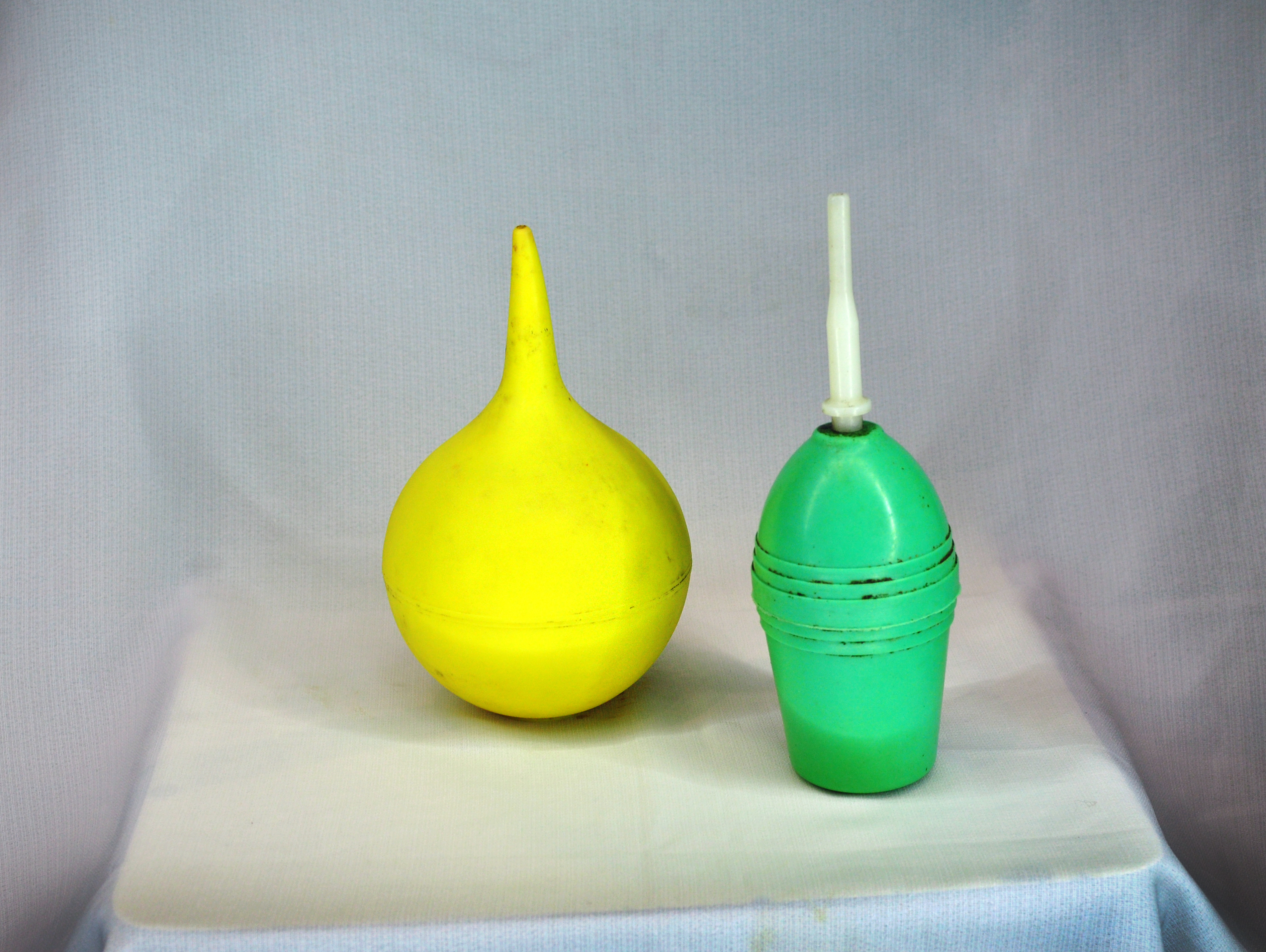 The enema (tool) - (Greek κλύσμα from κλύζω "clean, wash") is a medical procedure consisting in the introduction of water or other liquids or solutions of medicinal substances through the anus in the rectum (using standard tips for enemas) or directly into the thick gut.